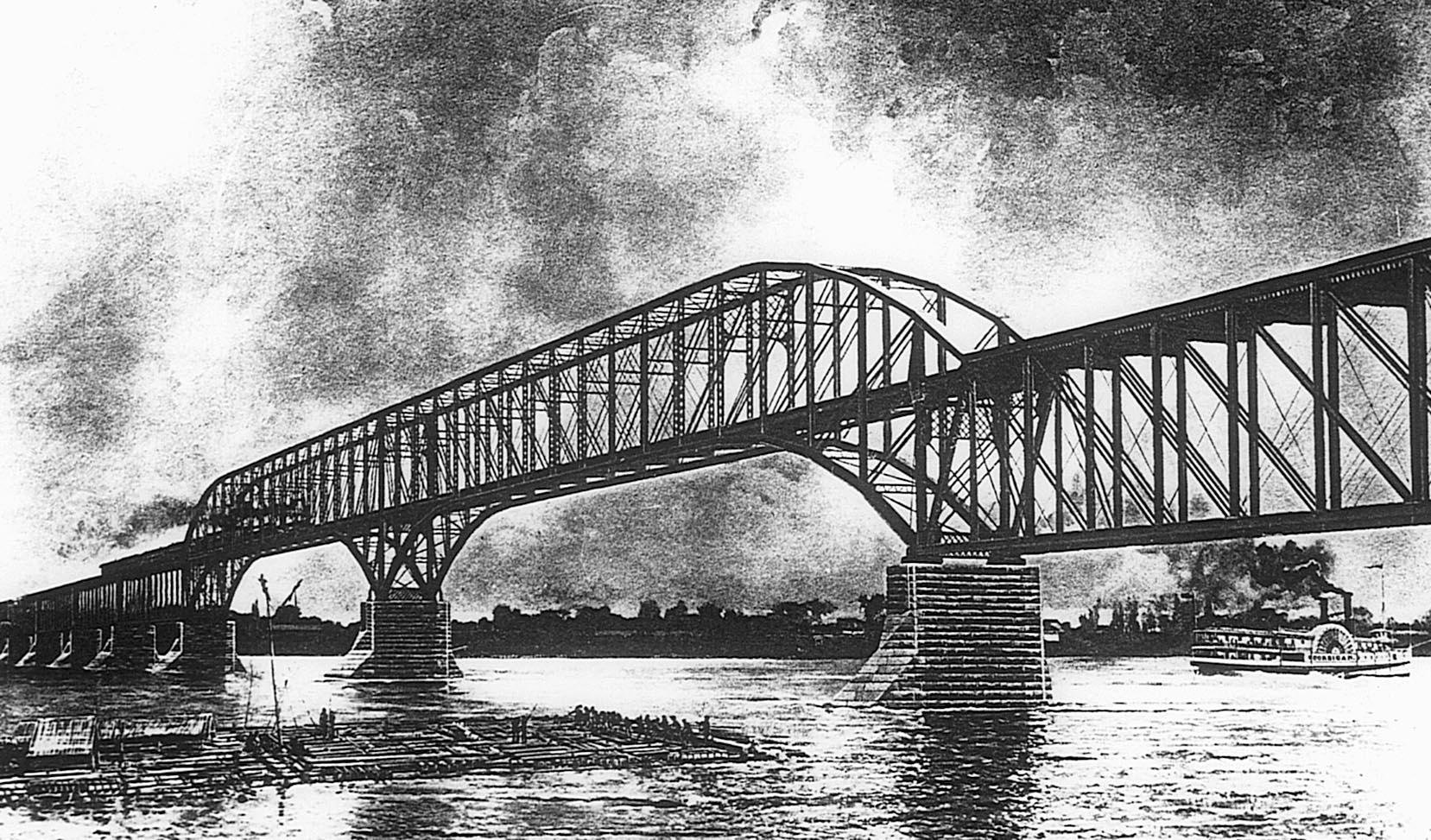 View of the first CPR bridge to cross the St. Lawrence River, built in 1885.